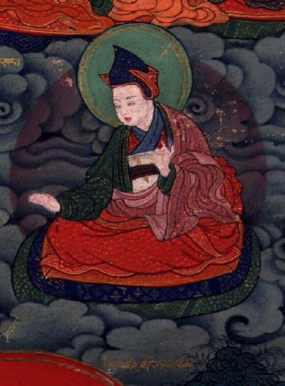 Rigdzin Godemchen Ngodrub Gyeltsen, First Dorje Drak Rigdzin Chenpo, b.1337 - d.1409